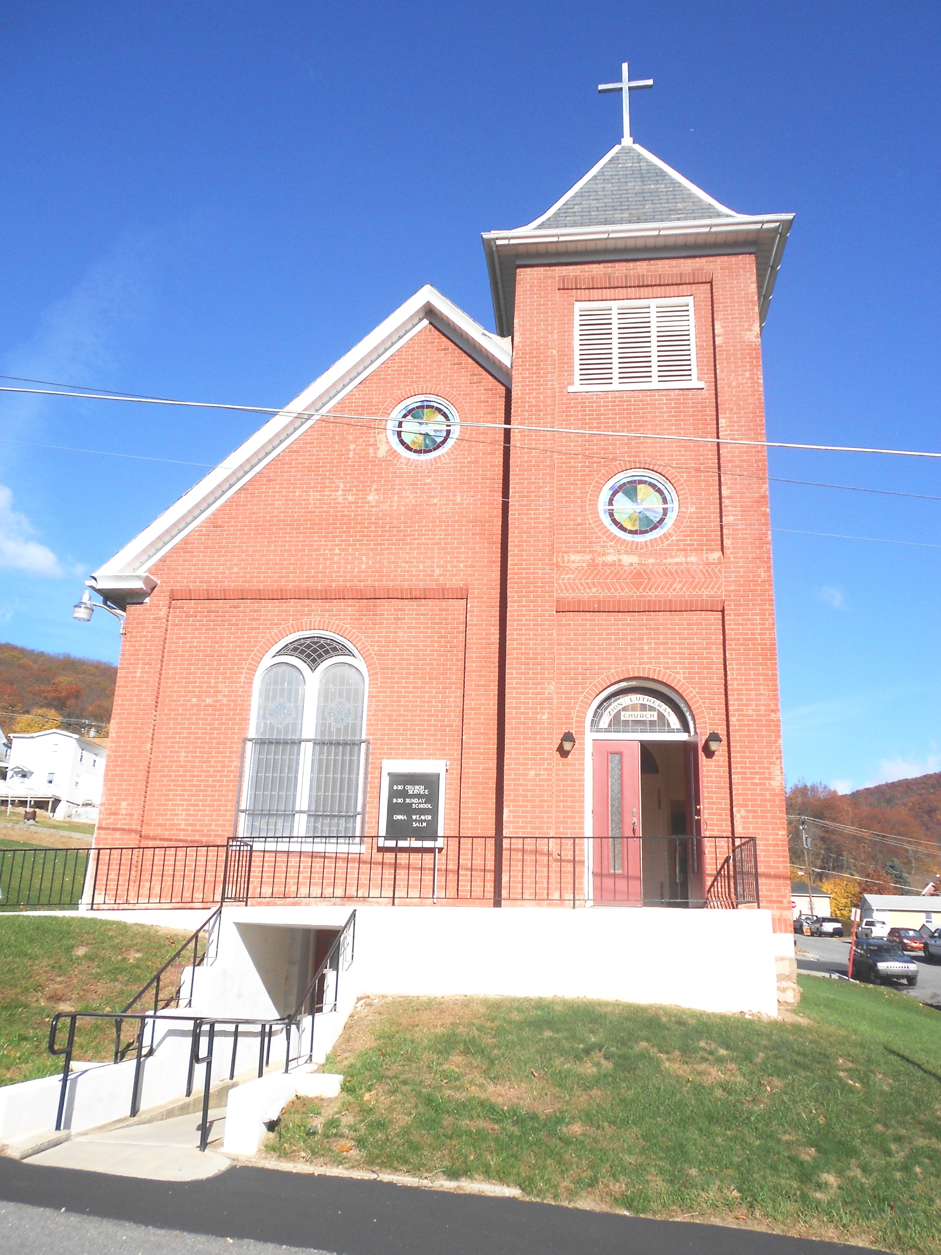 Zion Evangelical Lutheran Church in the village of Packerton, Mahoning Township, Carbon County, Pennsylvania